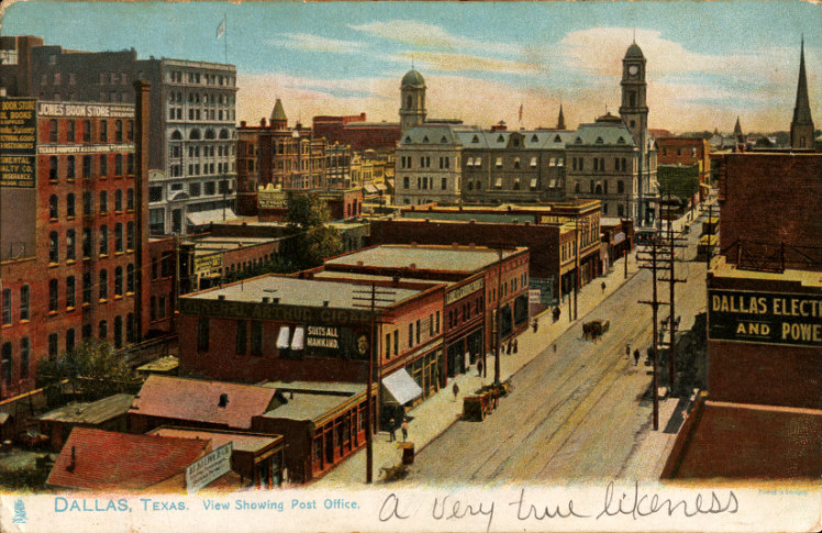 View showing Post Office, Dallas, Texas